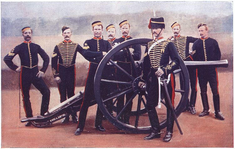 Colourised photograph of British Royal Horse Artillery gunners, with BL 12 pounder 7 cwt field gun.